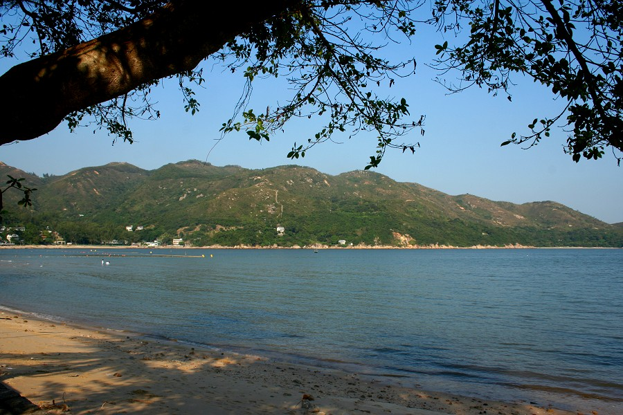 Siver Mine Bay at Mui Wo ( Lantau Island - Hong Kong )